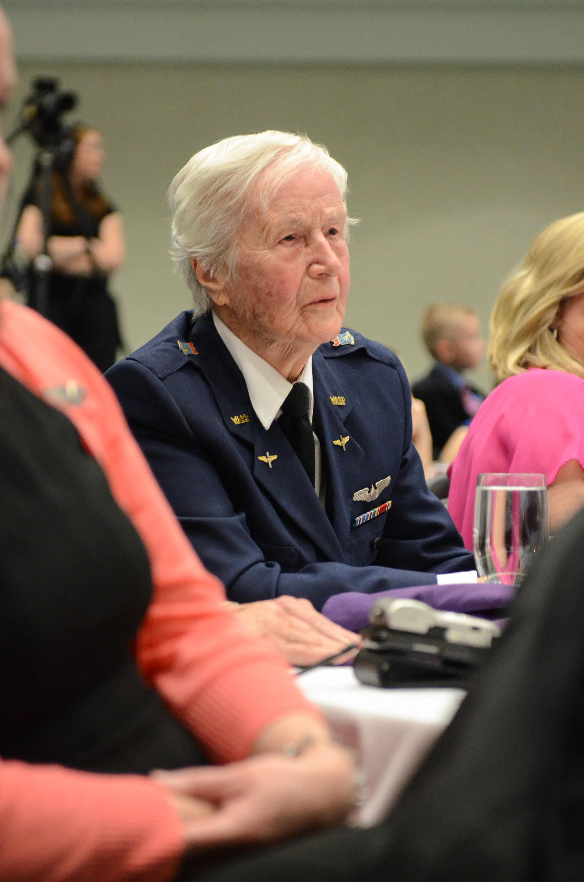 Florence Shutsy Reynolds, 91, a former member of the Women Airforce Service Pilots corps during World War II, attends the Kentucky National Guard’s Airman and Soldier of the year Banquet in Louisville, Ky., March 22, 2014. The WASP program’s primary focus was to reassign responsibility for flight operations over the United States from male to female pilots, freeing men to go to war.